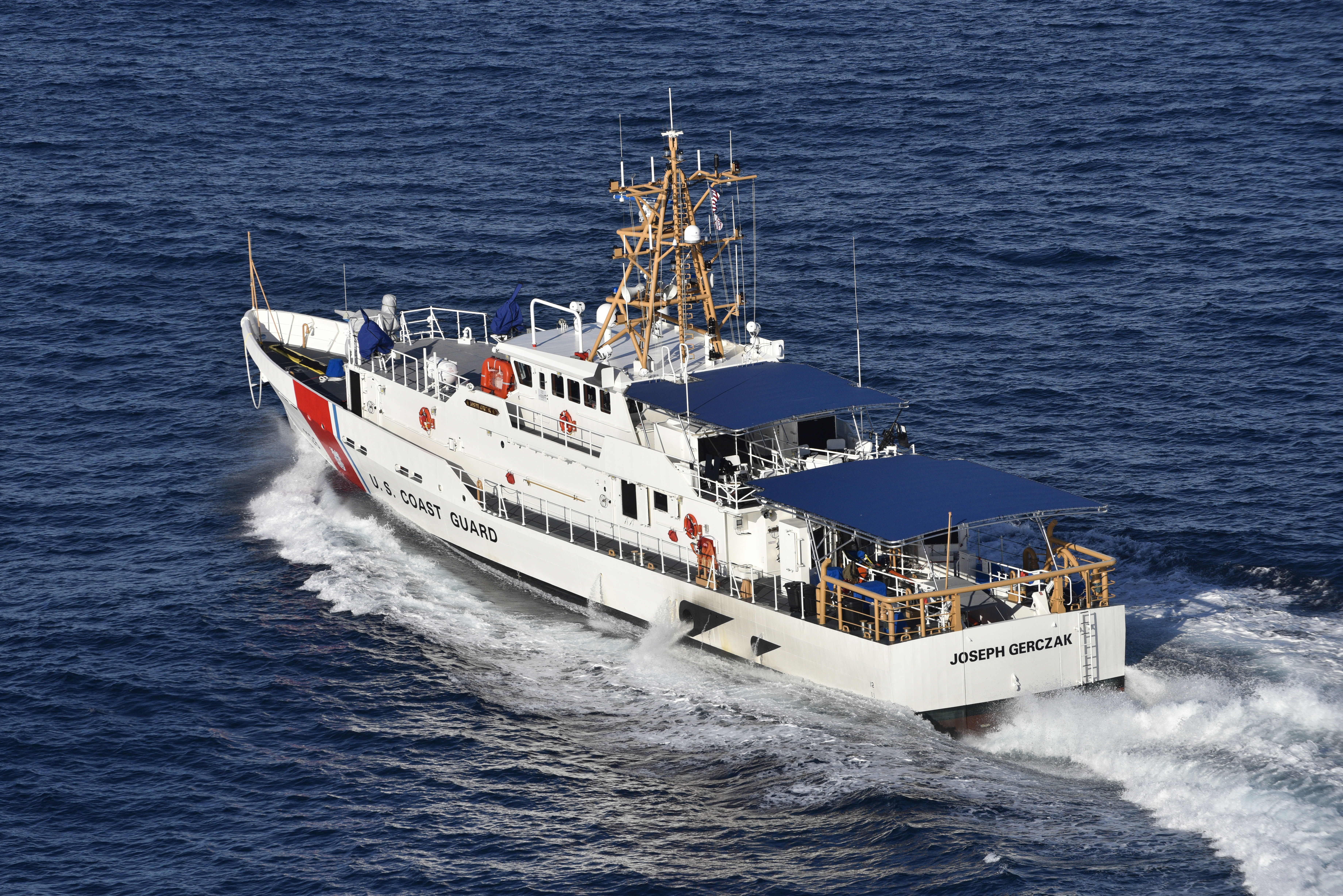 The Coast Guard Cutter Joseph Gerczak conducts sea trials off the coast of Key West, Florida, on Dec. 14, 2017. The ship will be the second fast response cutter stationed in Honolulu, Hawaii, and is scheduled for commissioning in early 2018. (U.S. Coast Guard photo by Eric D. Woodall)